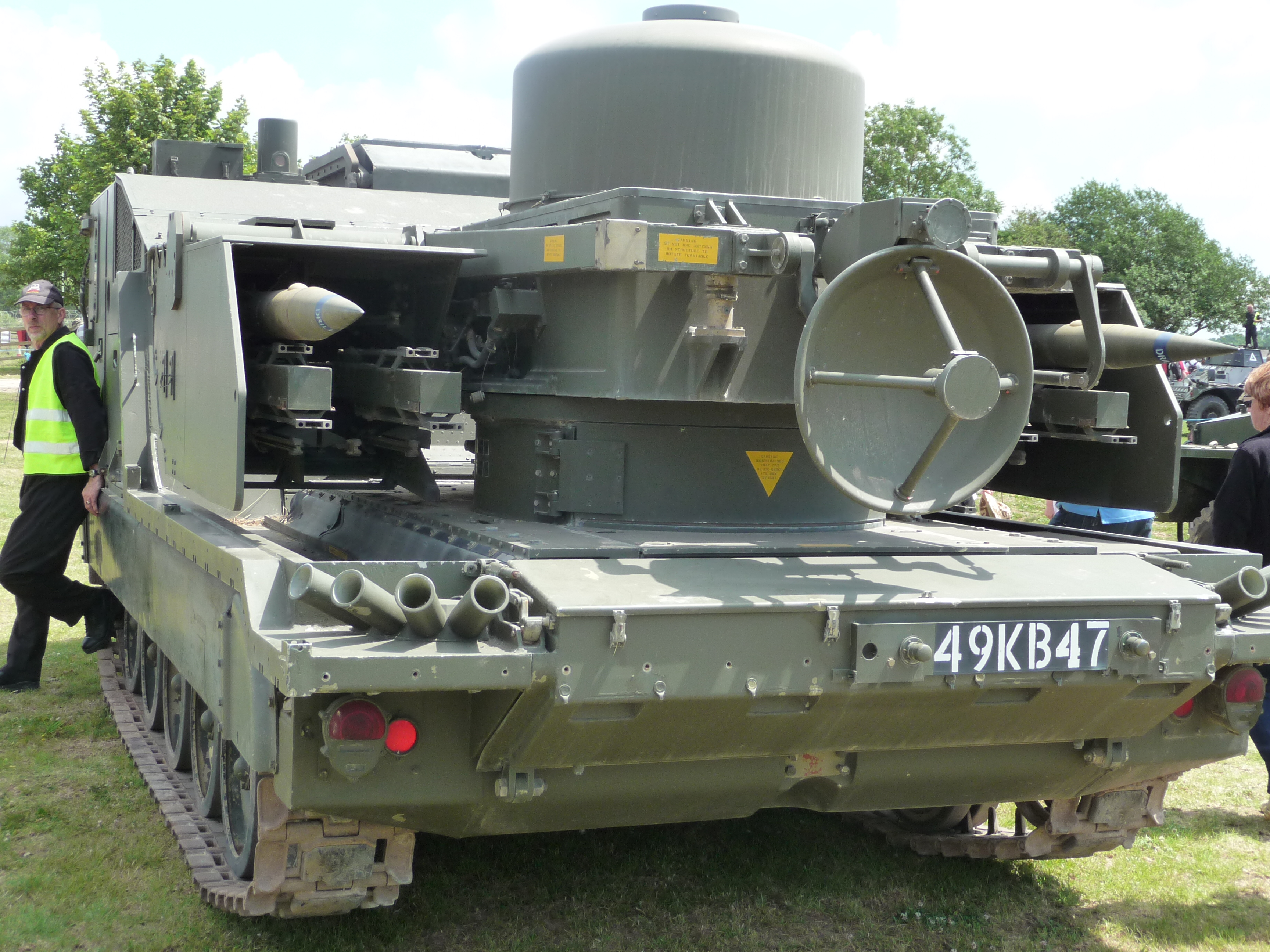 Tracked Rapier is based on an US-American M548, version of M113 APC. Mounted on the rear is a Rapier-anti-aircraft guided missile system.